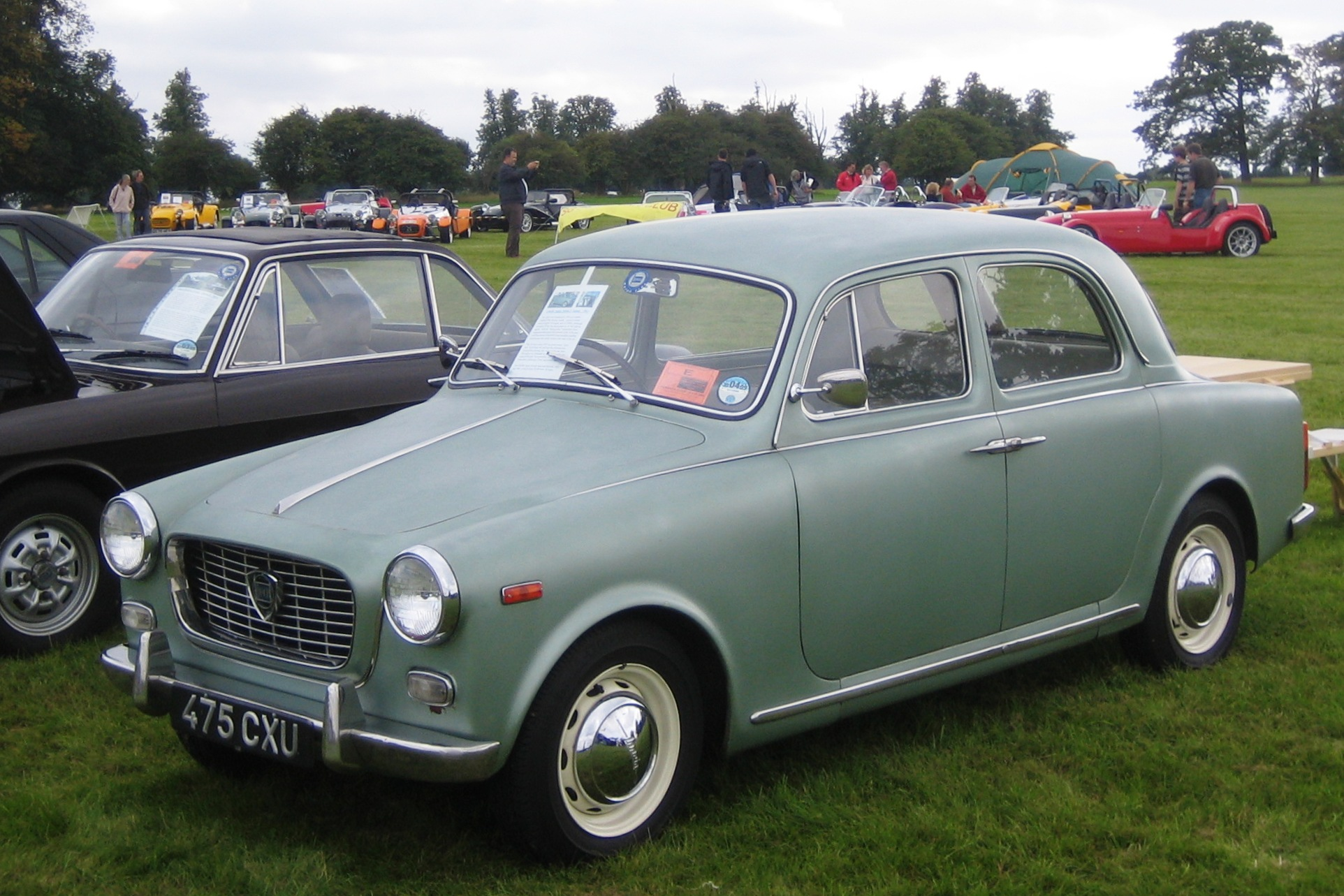 Lancia Appia at Knebworth Classic Car Show